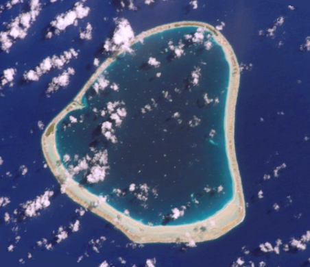 NASA picture